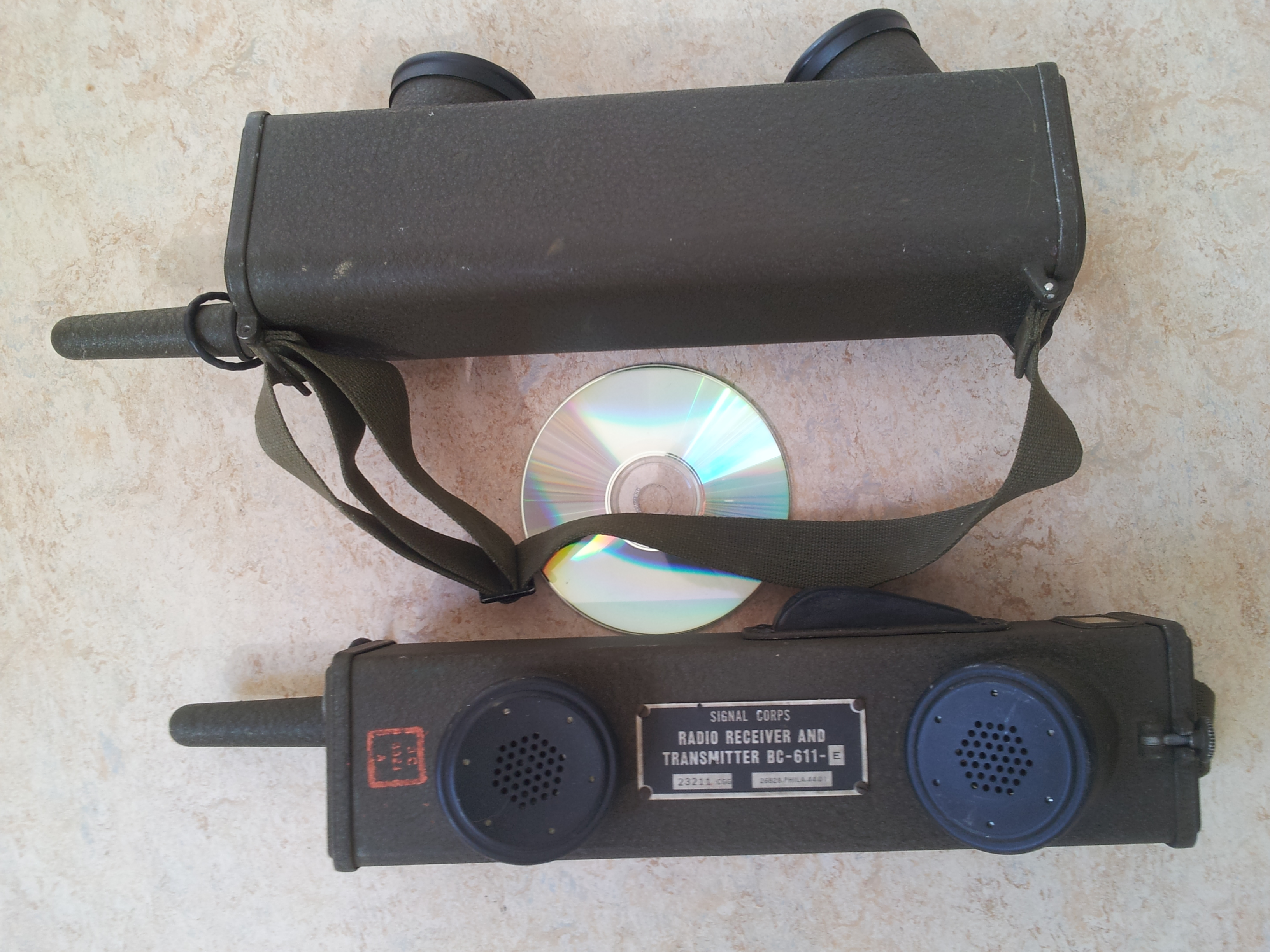 Walky Talky from the US Army, 1944, type: BC-611